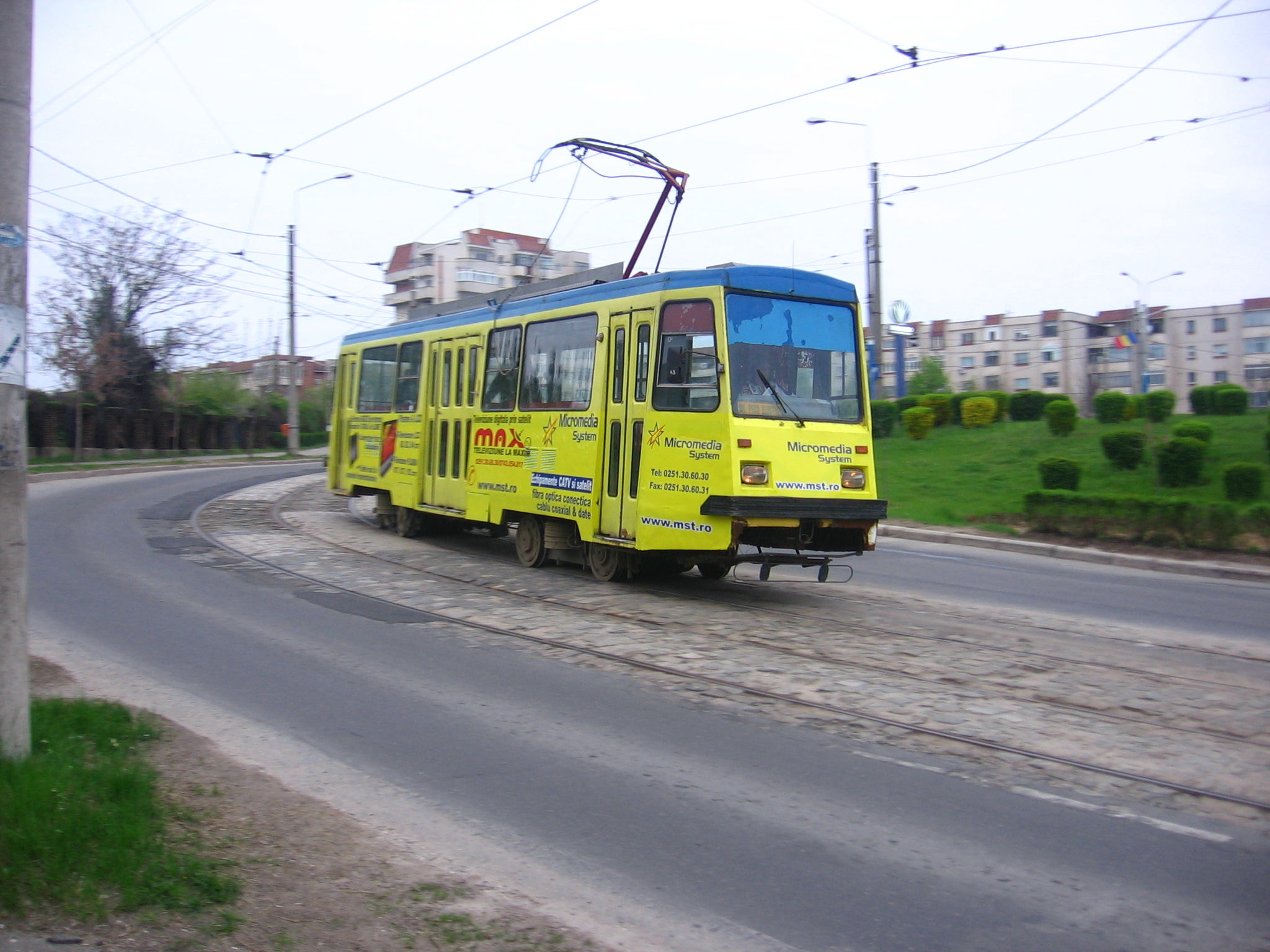 Tram Timis2 on line 100 in Craiova originally coming from Vienna.